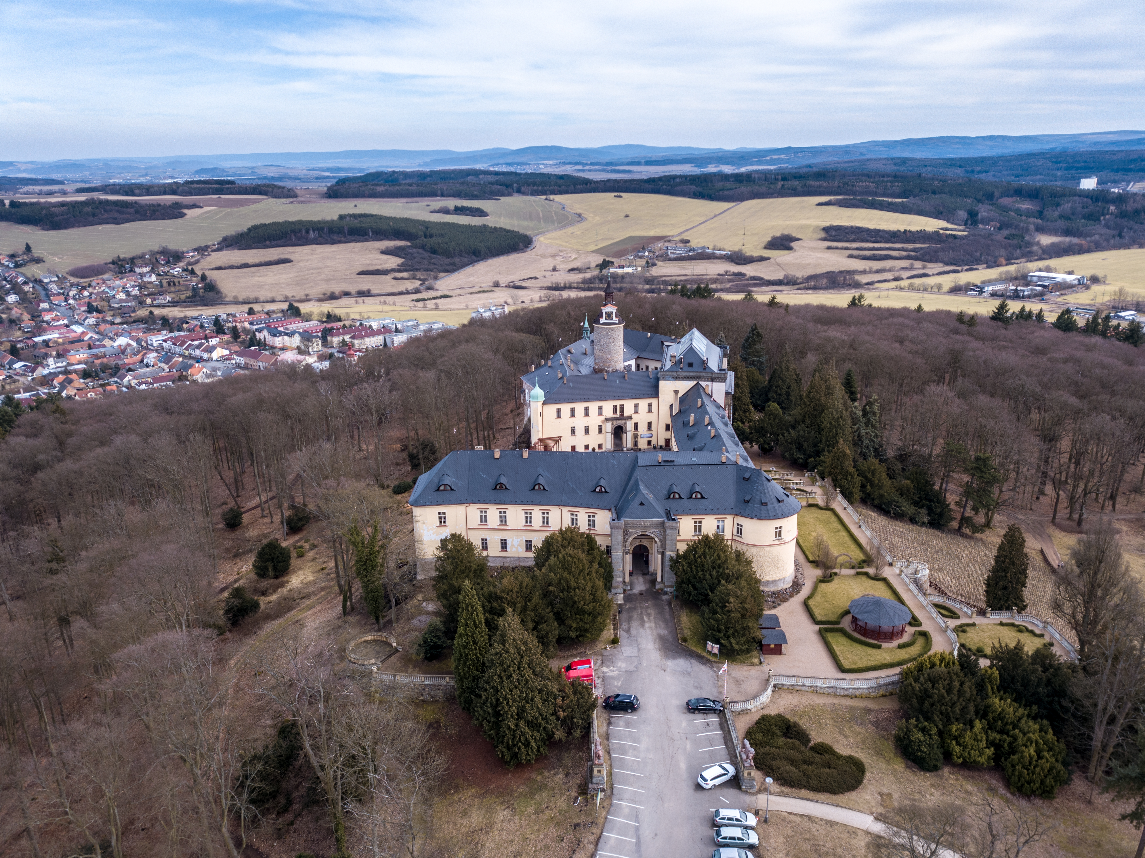 Chateau Zbiroh